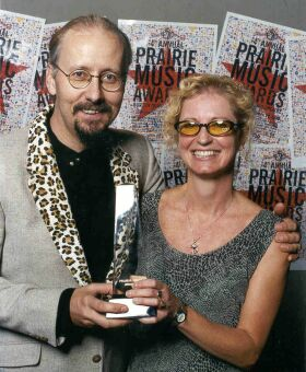 LuLu and the TomCat won their first Prairie Music Award (now called the WCMA's) in 2005 for their first children's album, "All the Cats Were Playin'"